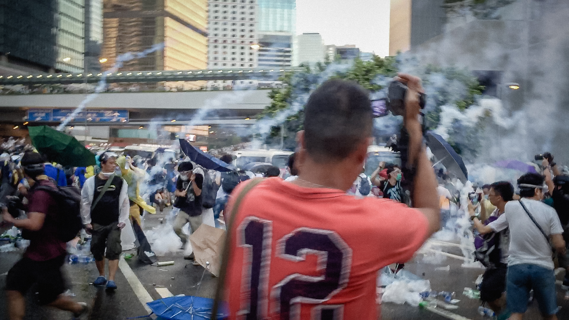 Tear gas on 2014/09/28